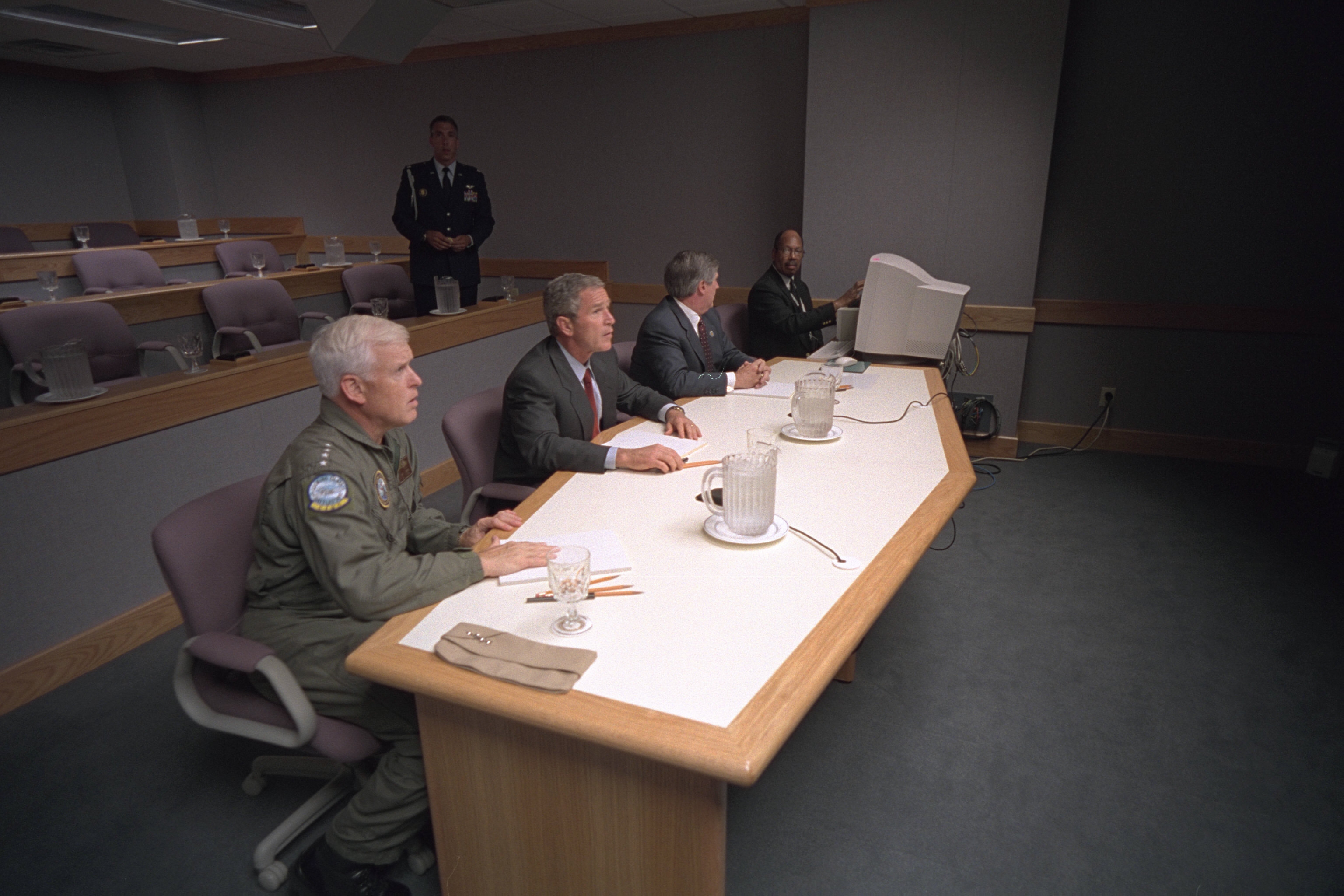 President George W. Bush, Admiral Richard Mies, left, and White House Chief of Staff Andy Card conduct a video teleconference Tuesday Sept. 11, 2001, at Offutt Air Force Base in Nebraska. Photo by Eric Draper, Courtesy of the George W. Bush Presidential Library